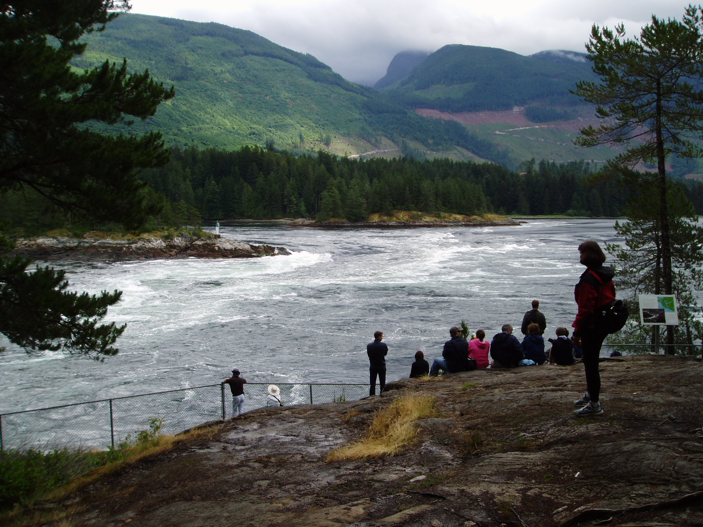 Skookumchuck Narrows, a salt water rapid at the entrance to Sechelt Inlet,BC, CA, during strong ebb tide.